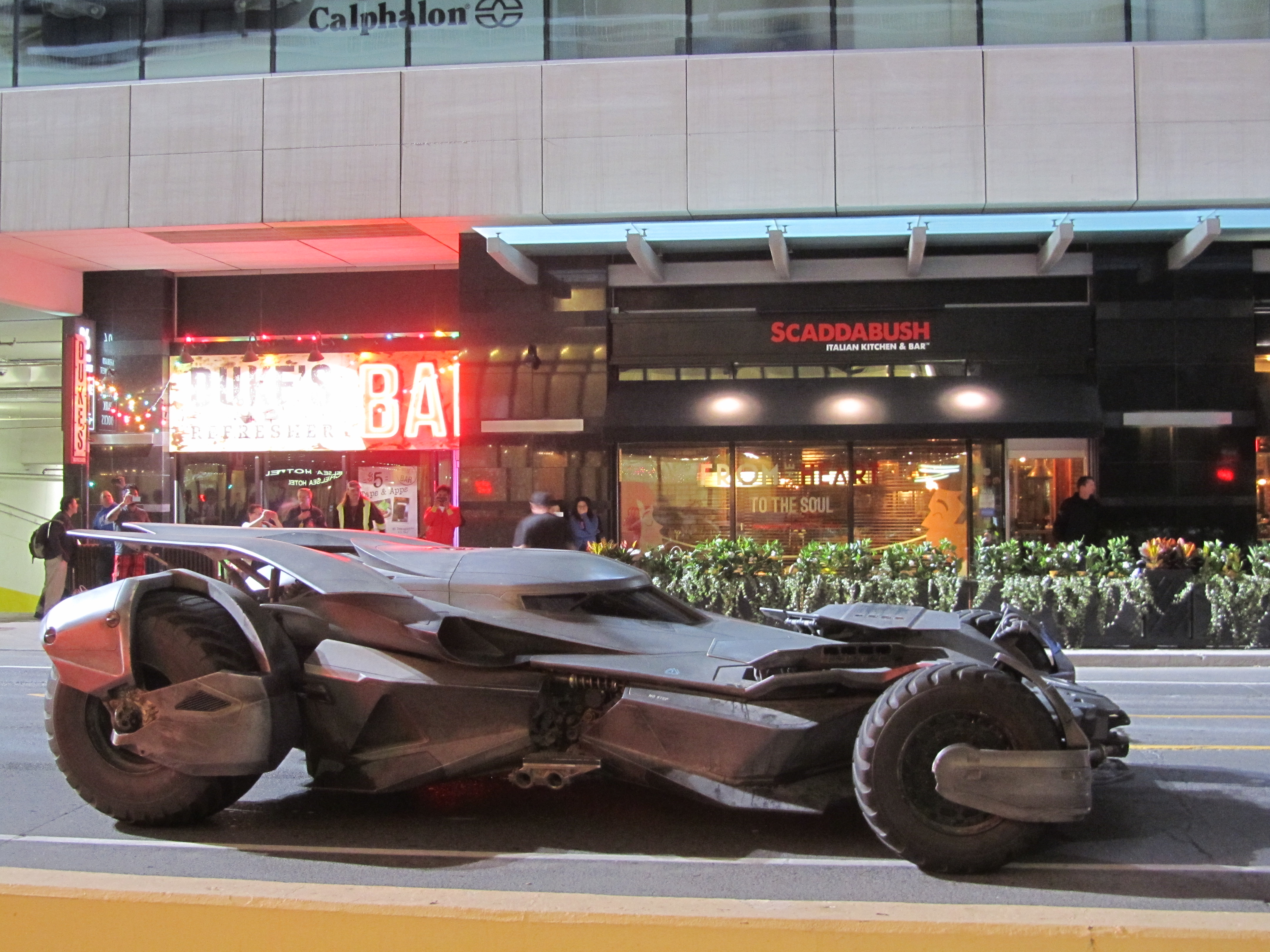 Batmobile on the set of Suicide Squad in Toronto.